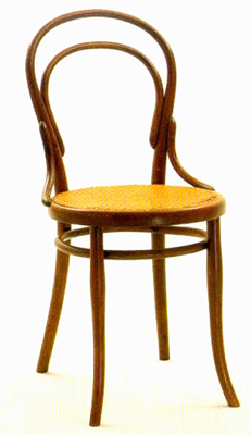 Thonet-modell No. 4. - Design created in the 1850s.